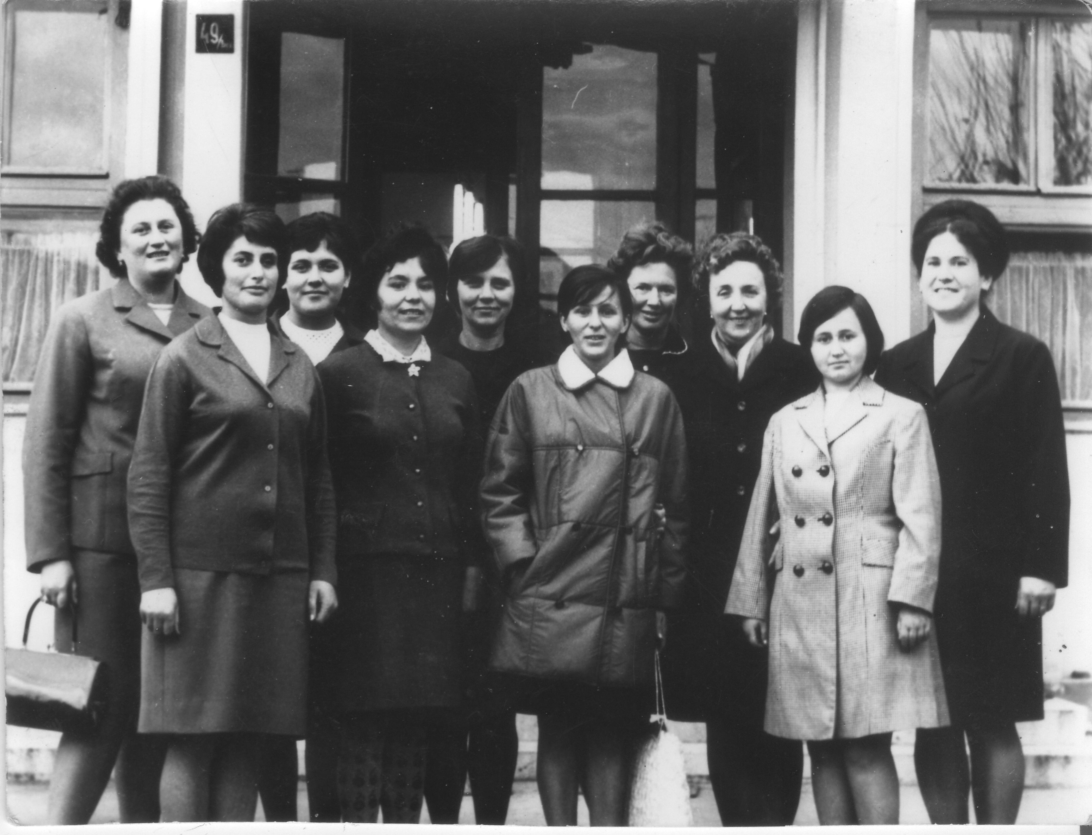 High school teachers in the front door of the “Simion Bărnuţiu” High School in Şimleu Silvaniei in November 1969